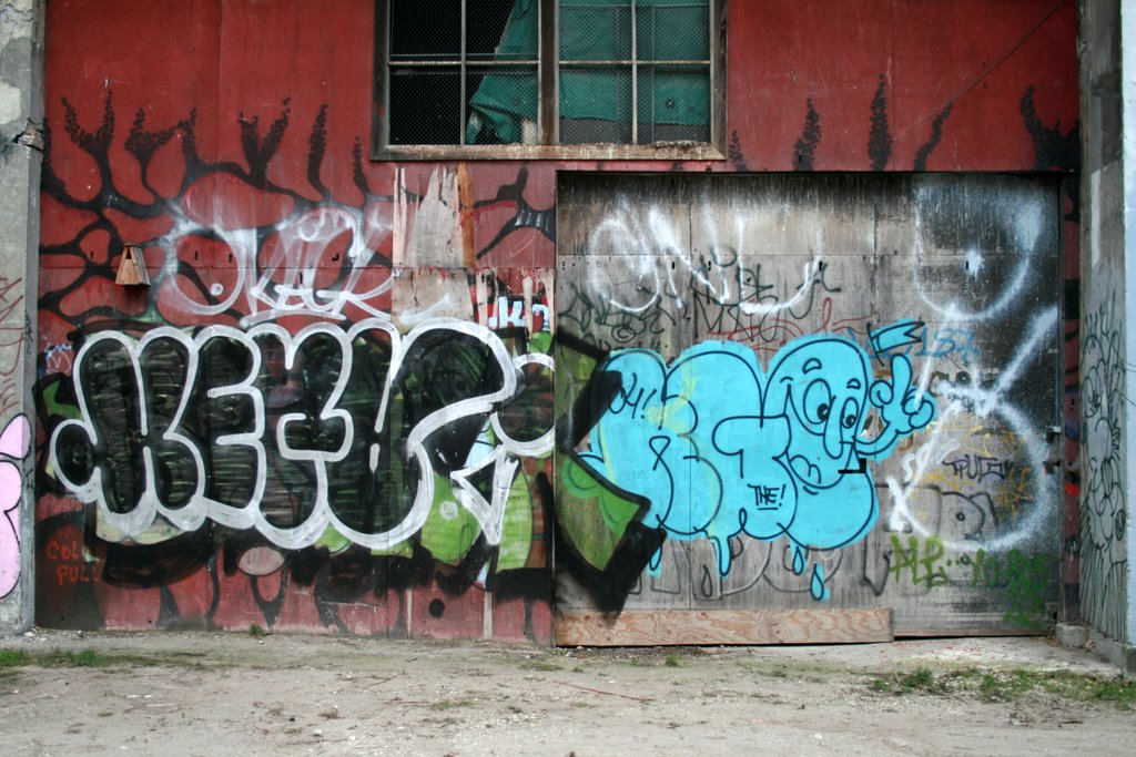 throw up in copenhagen, denmark